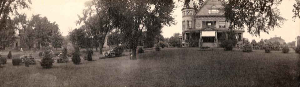 Elmcroft